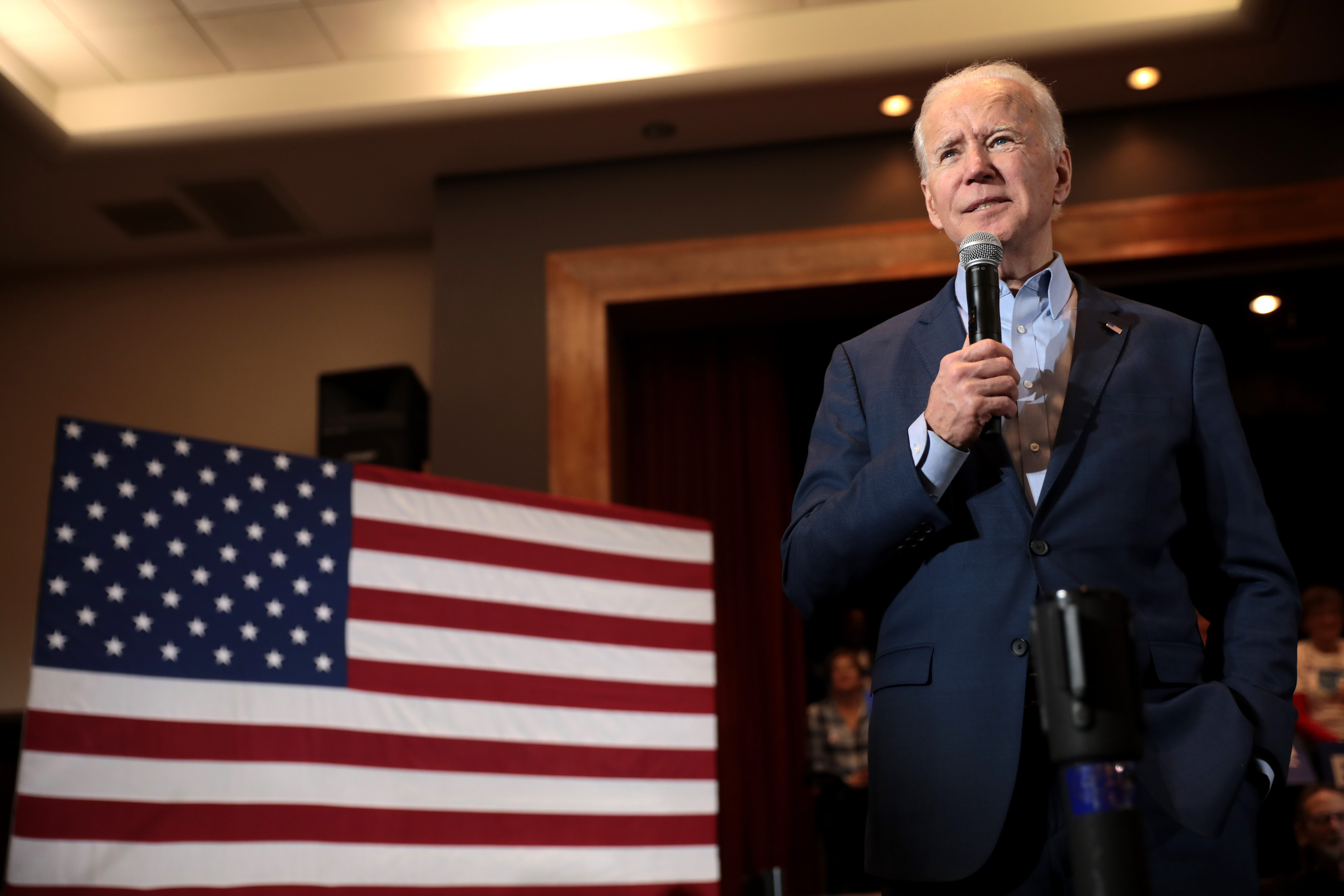 Former Vice President of the United States Joe Biden speaking with supporters at a community event at Sun City MacDonald Ranch in Henderson, Nevada.